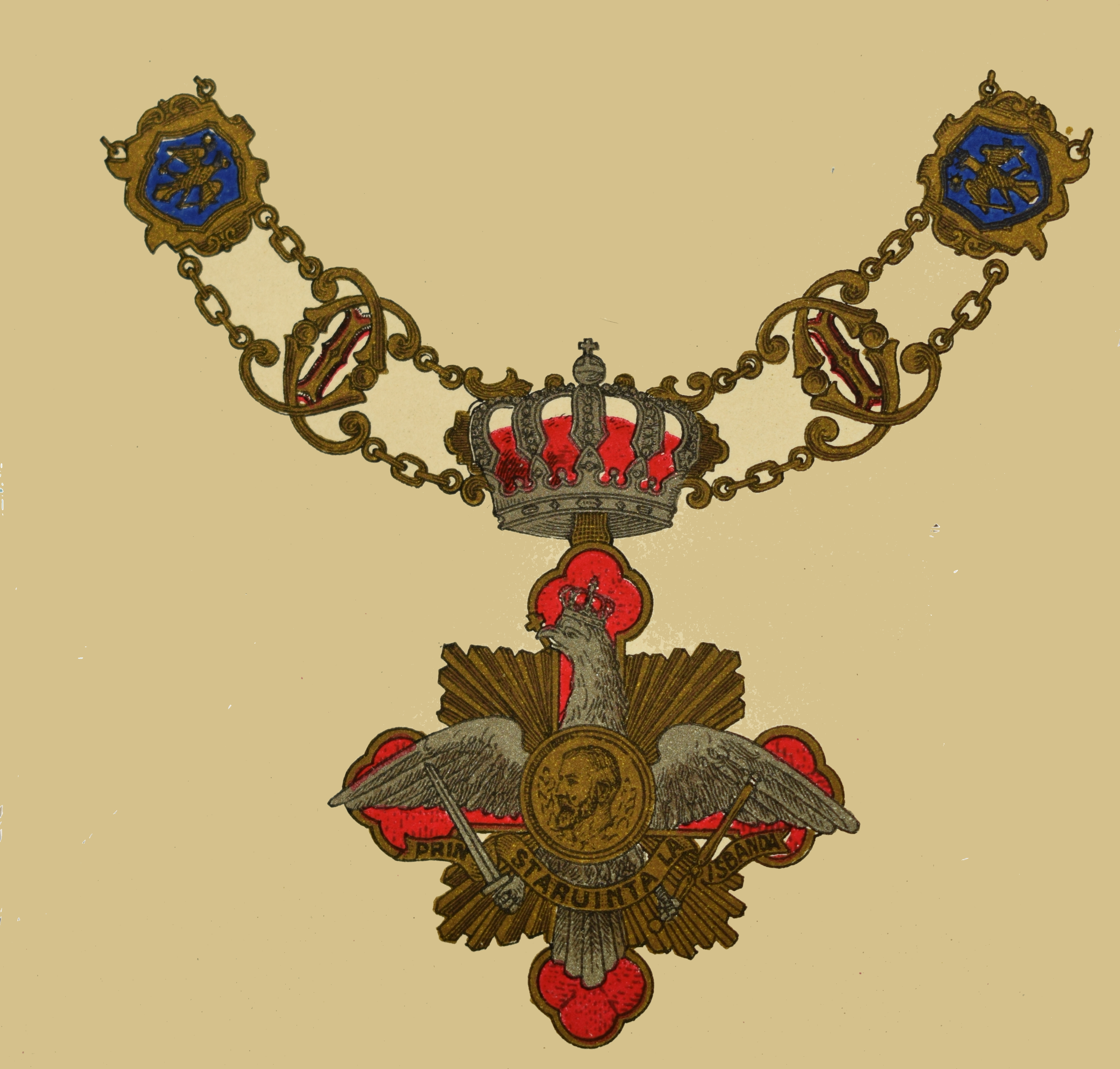 The Collar of the Order "Carol I" of Romania. The Collar of this Order is depicted at the botton of the Royal Coat of Arms of Romania, biggest variant